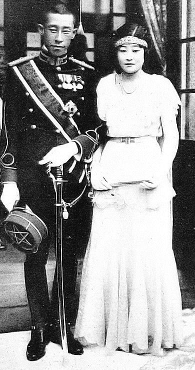 Prince Yi Geon and his wife